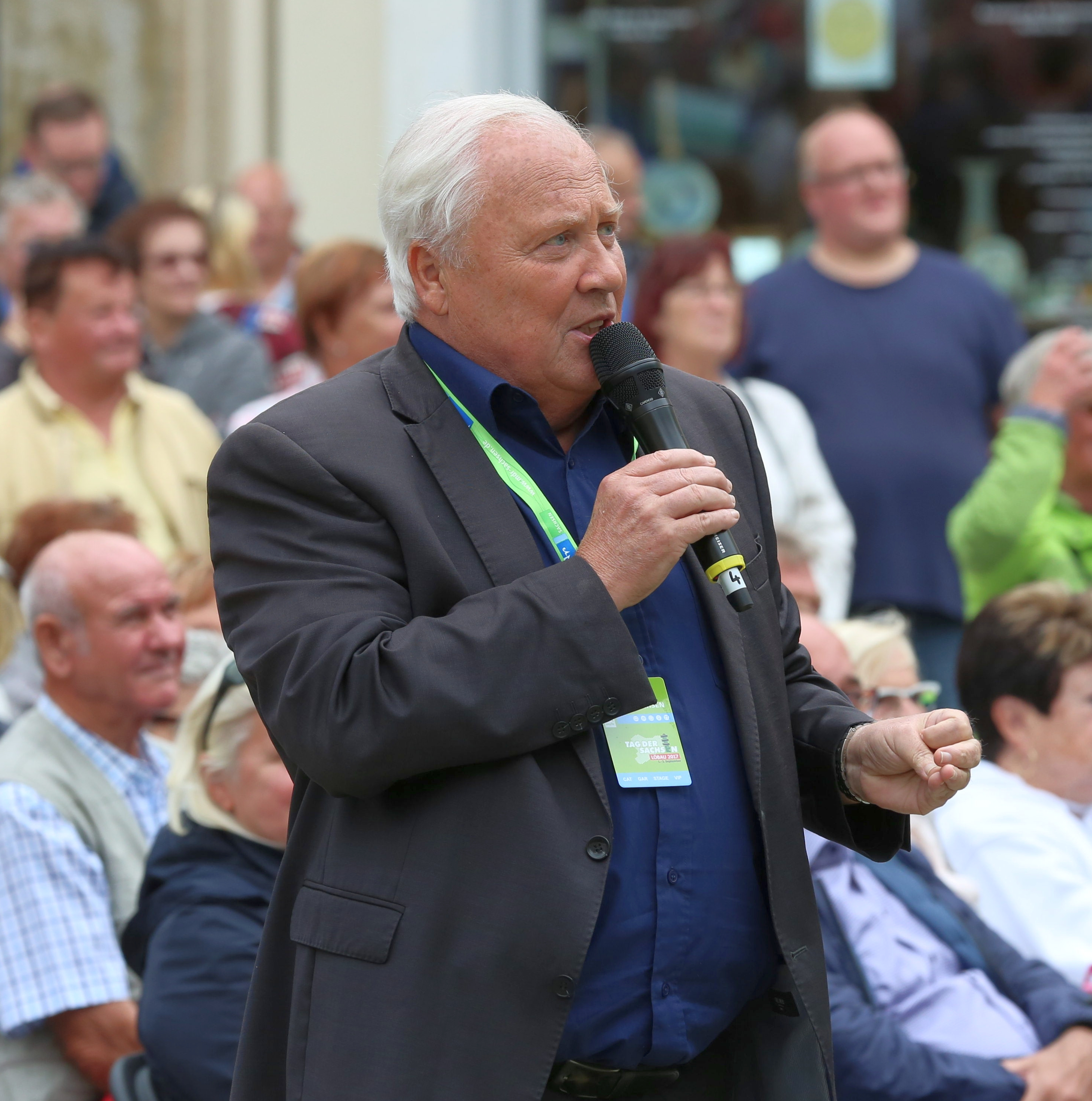 Gert Zimmermann at the Tag der Sachsen 2017 in Löbau; MDR Sachsen stage at the Altmarkt